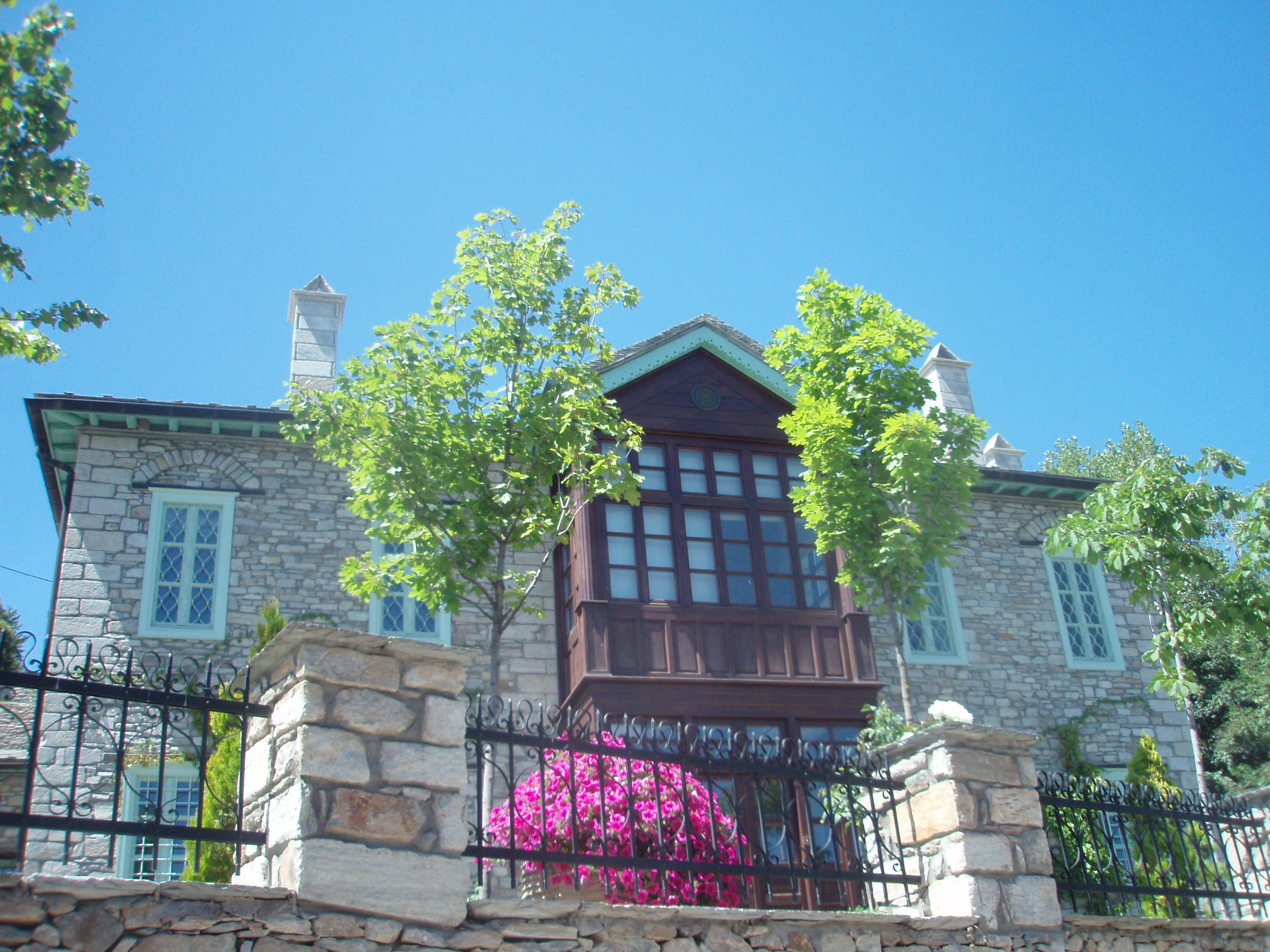 Old house reconstructed in stone-style typical of Nymfeo (Nymfaio) village, Nymfeo municipality, Florina prefecture, Greece.